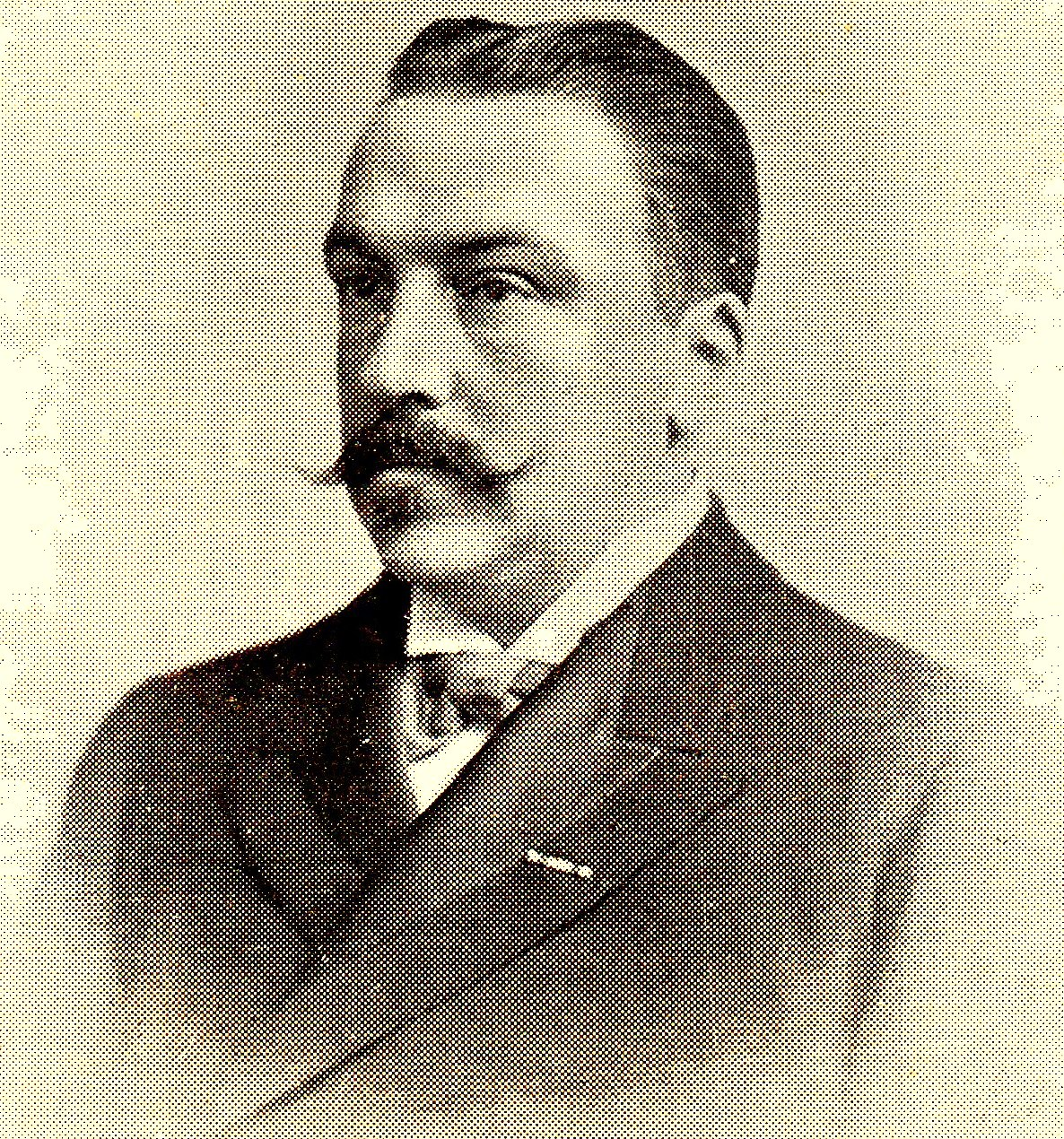 Mr. M.J.C.M. Kolkman